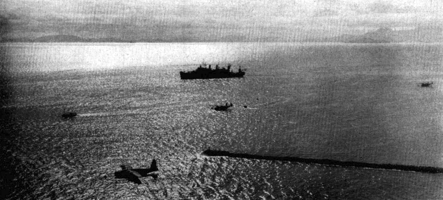 The U.S. Navy seaplane tender USS Curtiss (AV-4) with Martin PBM-5 Mariner and a Short Sunderland MR5 during the Korean War. Shortly after the outbreak of the Korean War, Curtiss sailed from San Diego, California (USA), to join the U.S. 7th Fleet in July 1950 on patrol in the Korea Strait. Sailing out of Iwakuni and Kure, she tended two PBM squadrons and a squadron of British Sunderlands operating over Korean territory. Curtiss returned to San Francisco on 14 January 1951.